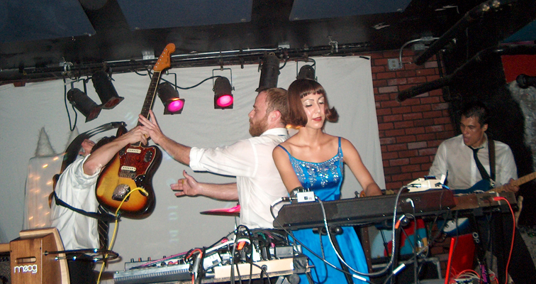 Members of The Octopus Project exchange instruments in the midst of performance at the Bottom of the Hill in San Francisco, August 16, 2008